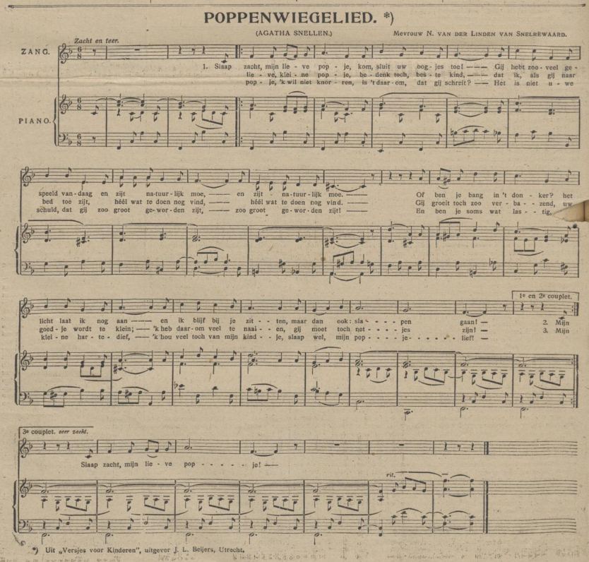 Sheet music of the Dutch children's song 'Sleep well, my dear doll' (title: Lullaby for a doll). Lyrics: Agatha Snellen (1862-1948) and music: Catharina van Rennes (1858-1940). Published in the newspaper: Algemeen Handelsblad, 06-11-1909, Onze kinderen, Bijvoegsel, page 4.